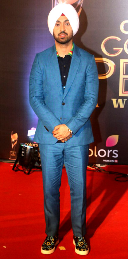 Diljit Dosanjh at Colors Golden Petal Awards